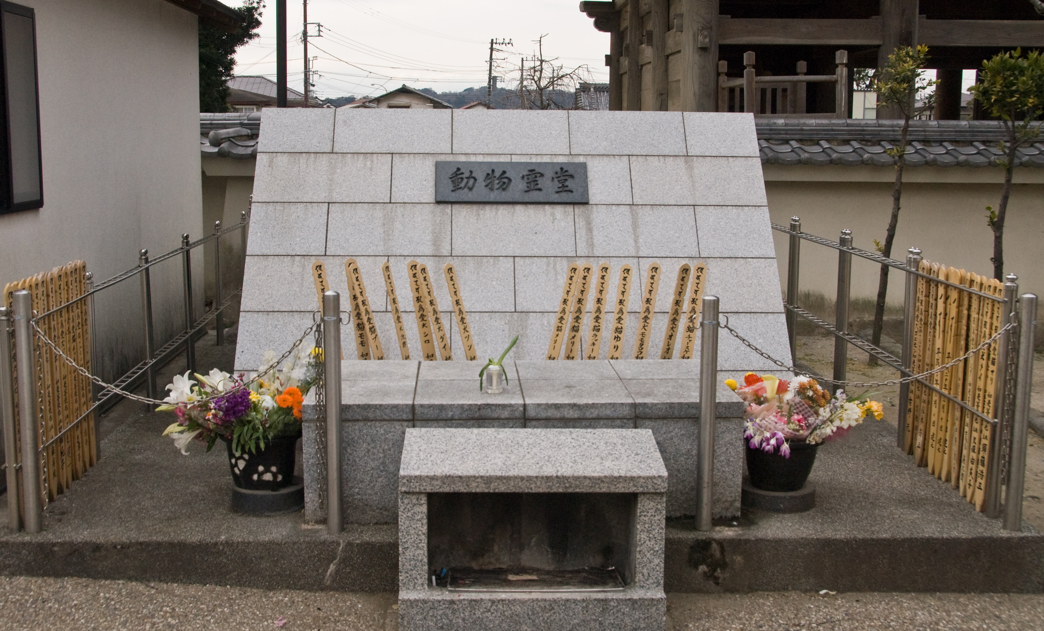 The pet cemetery at Kōmyō-ji in Kamakura. The sotoba (the strips of wood) carry the names of dead pets, like Gon, Kuro, Layla, Miiko and Pipi.